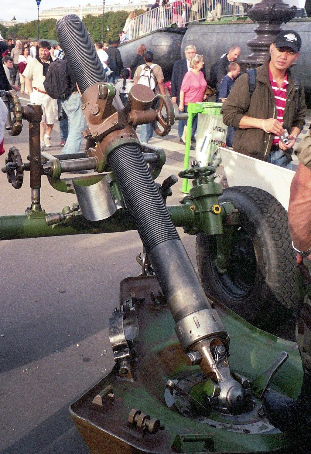 Nation/Defense days, Esplanade des Invalides, Paris, France, September 24-25, 2005